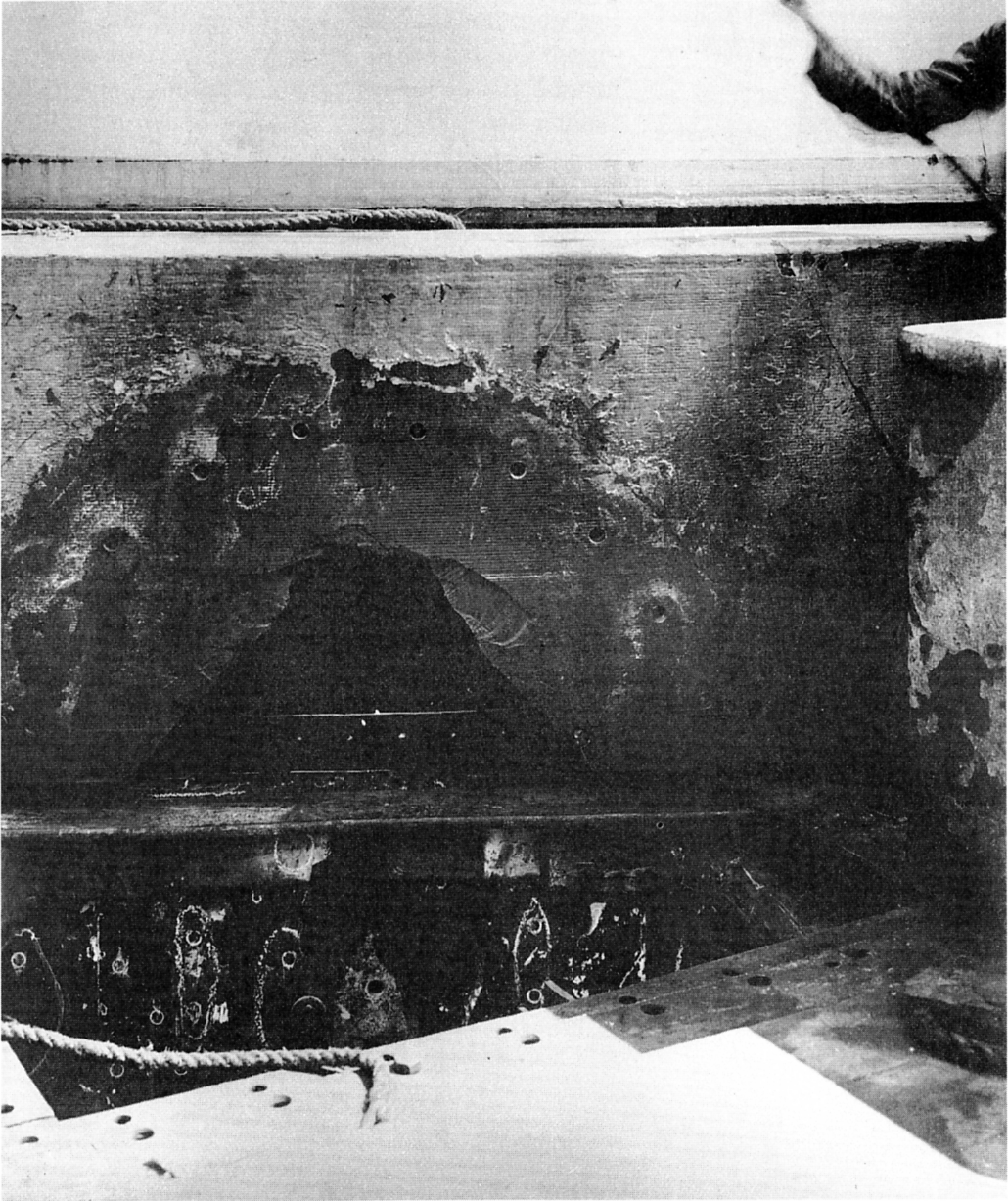 Damage to the barbette of 'X' turret of HMS Tigerreceived during the Battle of Jutland; Imperial War Museum image SP 3159